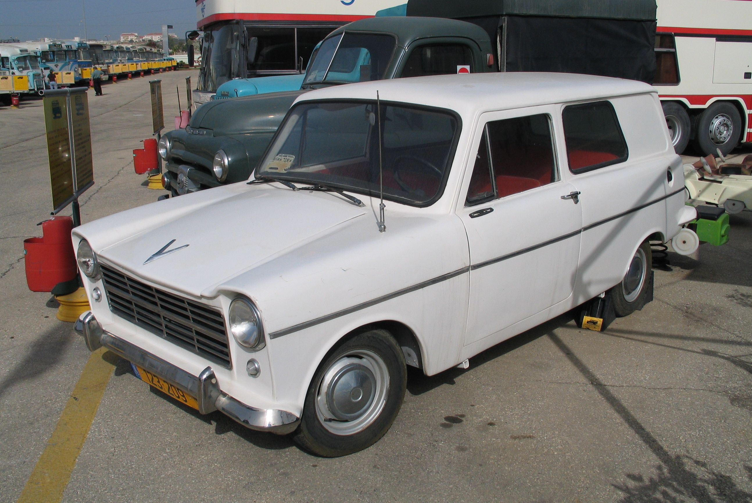 Autocars Susita 12/50, in the Egged Museum, Holon, Israel.